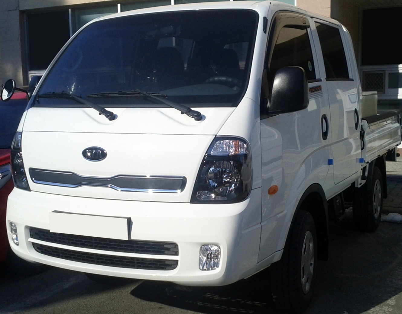 Kia Bongo3